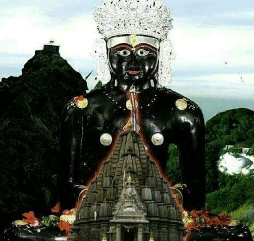 A representative image depicting Tirthankar Neminath on Girnar Tirth, his nirvan Bhumi.